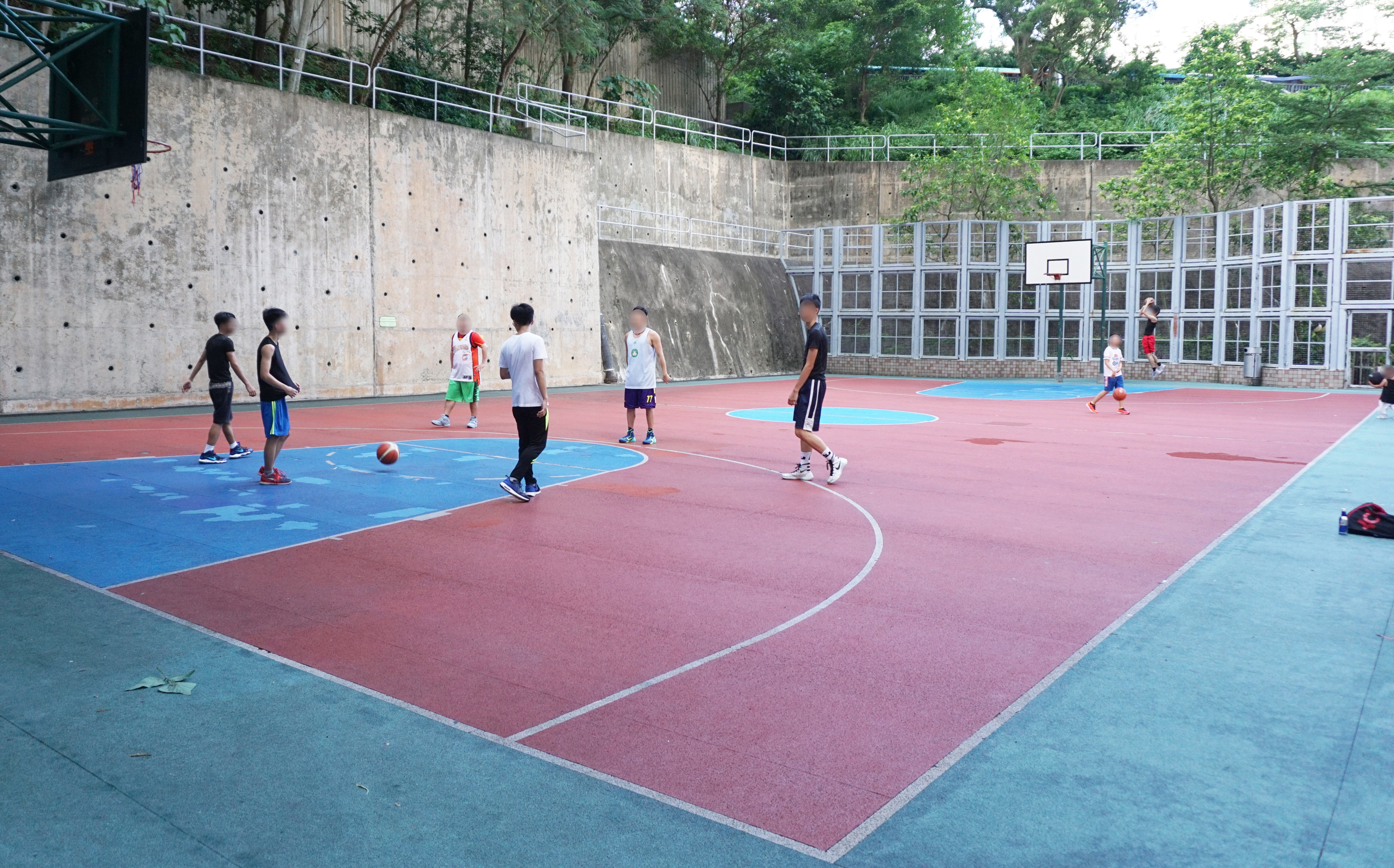 Shek Pai Wan Estate in Aberdeen, Hong Kong.